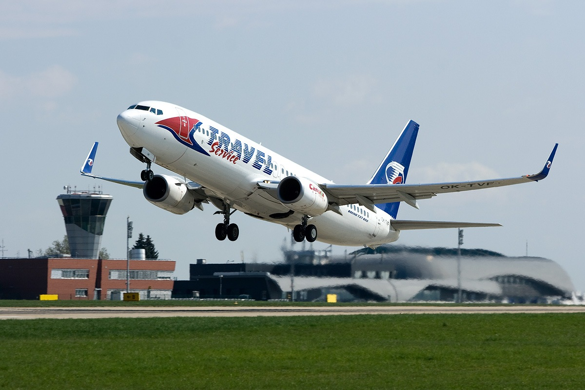 Boeing 737-800 OK-TVF at Brno airport